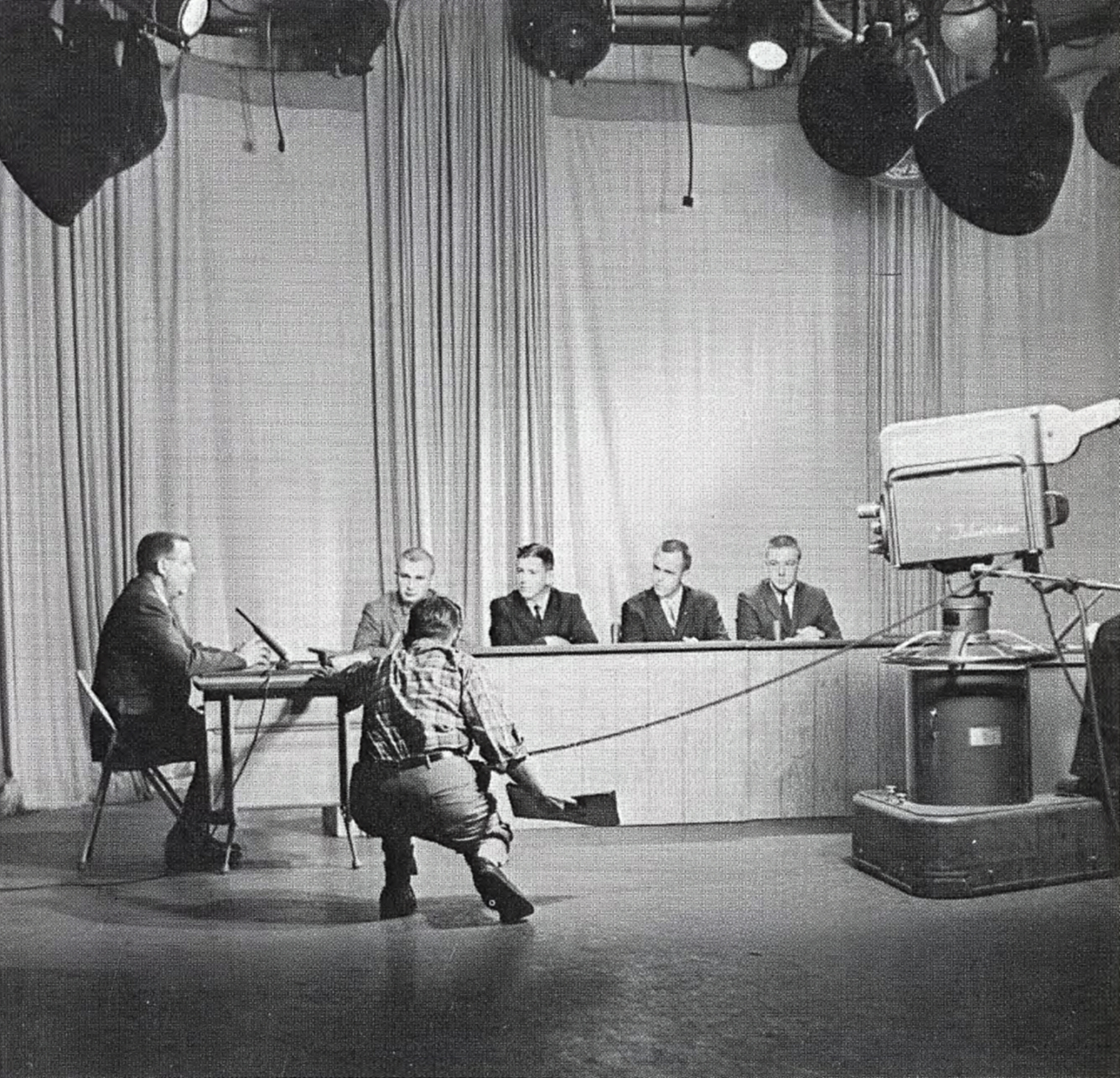 The William Pitt Debating Union of the University of Pittsburgh during their weekly television show Face the People which aired on WQED in the 1950s.